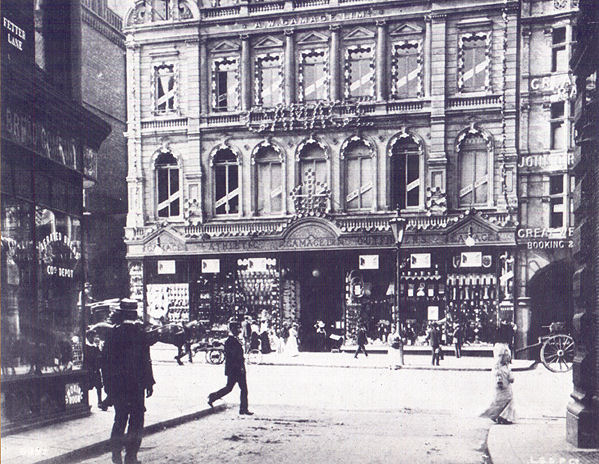 This is probably how the store looked in the late 19th century and is reproduced by kind permission of Miranda Young, great granddaughter of the founder. 1500th viewing: 5 August 2013